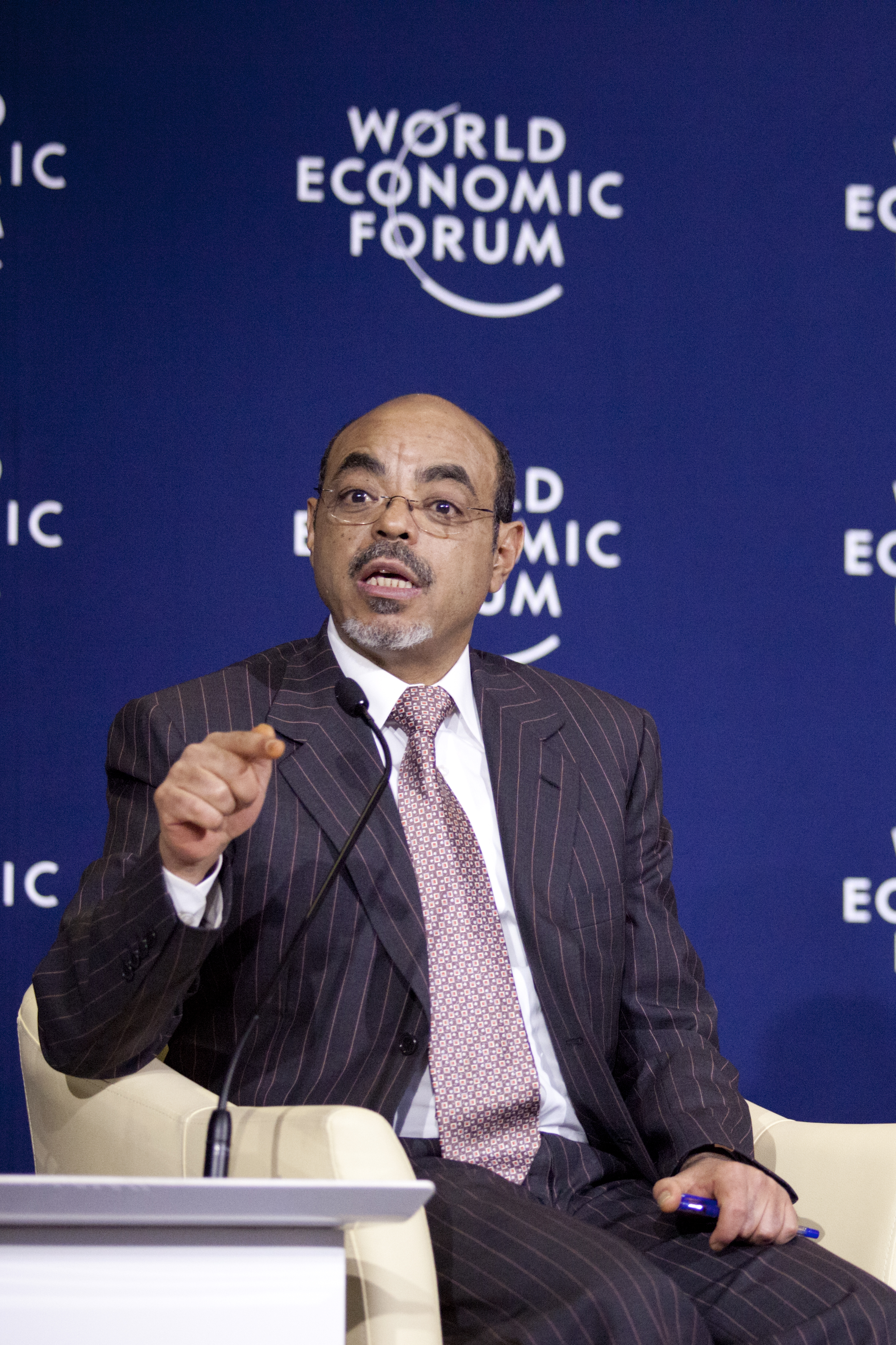 ADDIS ABABA/ETHIOPIA, 09-11 MAY 2012 - Meles Zenawi, Prime Minister of Ethiopia, captured during the Accelerating Infrastructure Investments Session at the World Economic Forum on Africa held in Addis Ababa, Ethiopia, 9-11 May, 2012.